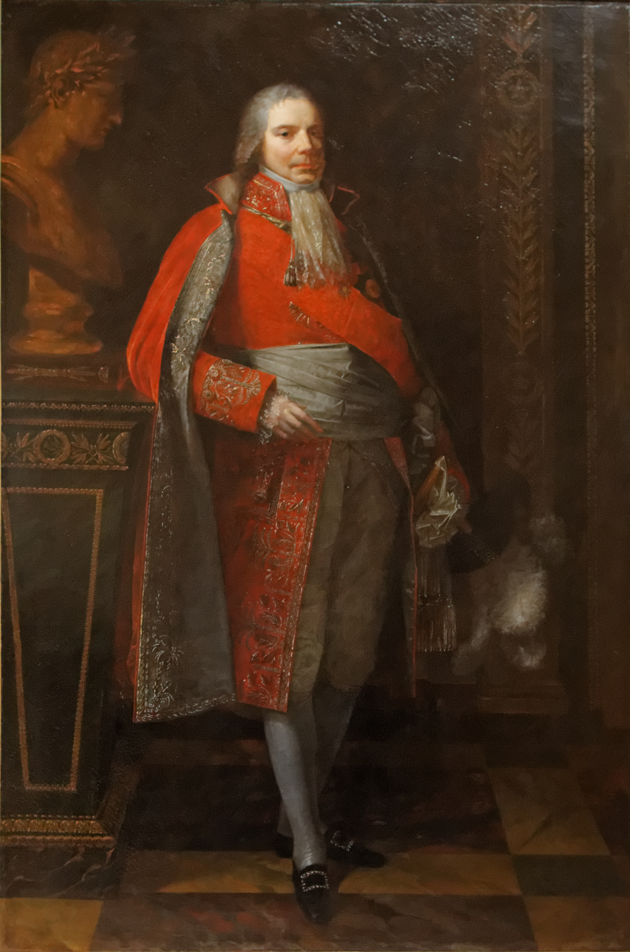 Charles-Maurice de Talleyrand, in Grand Chamberlain of the Empire outfit